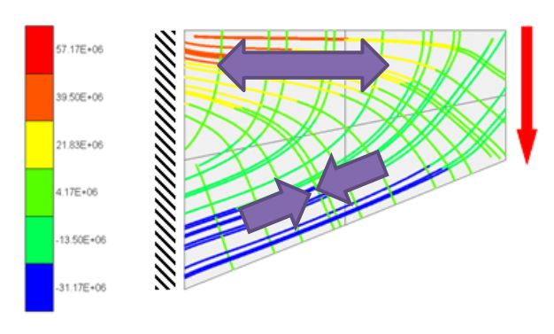 This figure shows the stress trajectories in a plate membrane model of a tapered cantilever subjected to a shear load at the tip.